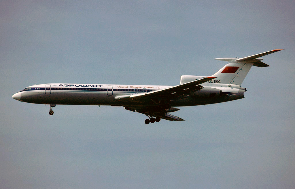 An Aeroflot Tupolev Tu-154B at Zürich Airport (ZRH / LSZH). This aircraft crashed on 7 December 1995.